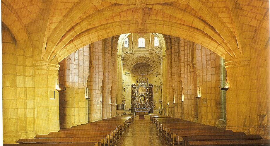 Monastery of the Santa Espina (Valladolid).